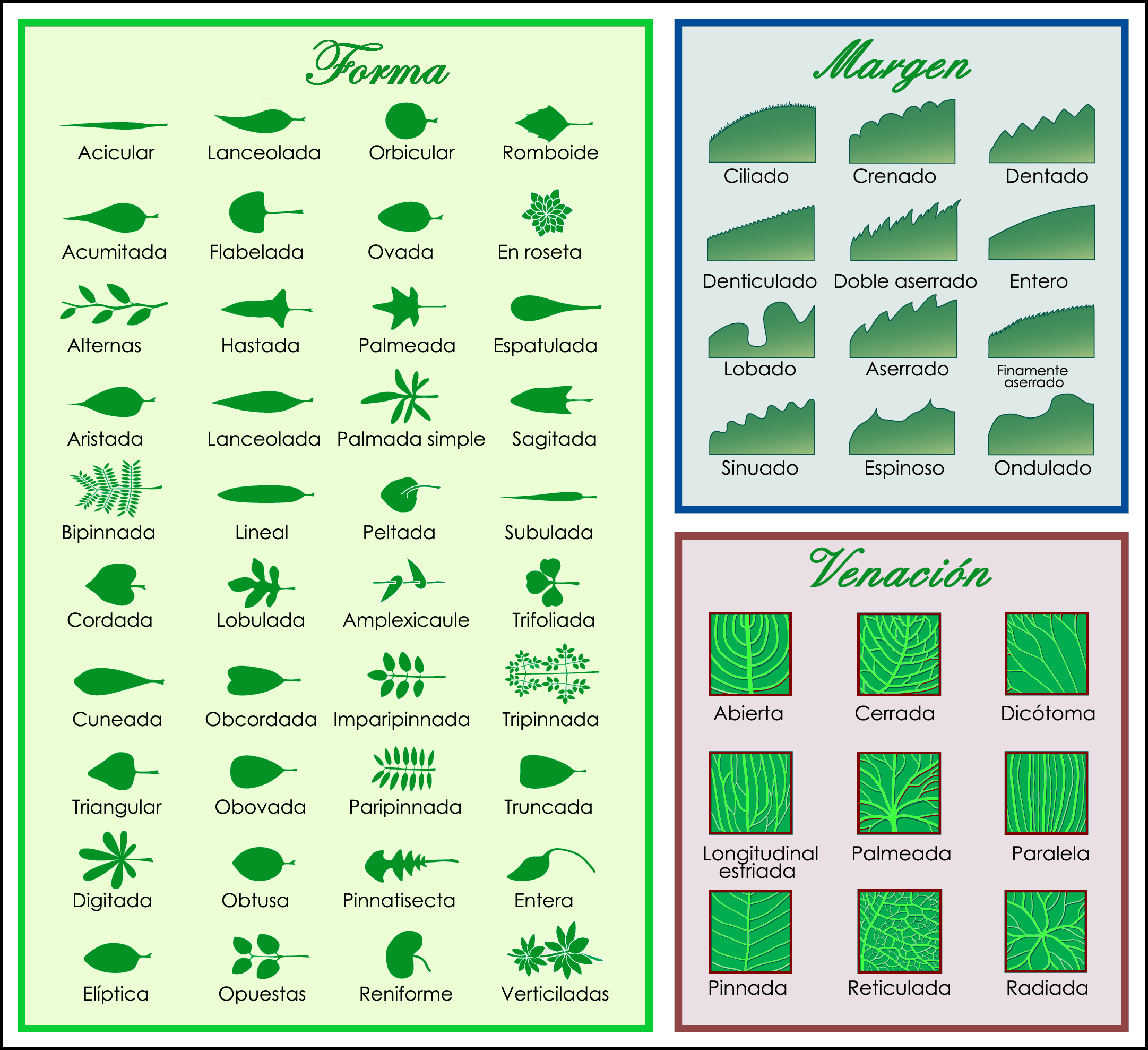 Spanish translation of chart of leaf morphology characteristics. by Debivort. Textless base belongs to Lbleye